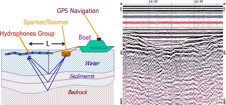 Seisic High Resolution Reflection: Outlines of data acquisition (left) and typical seismogramm (right)